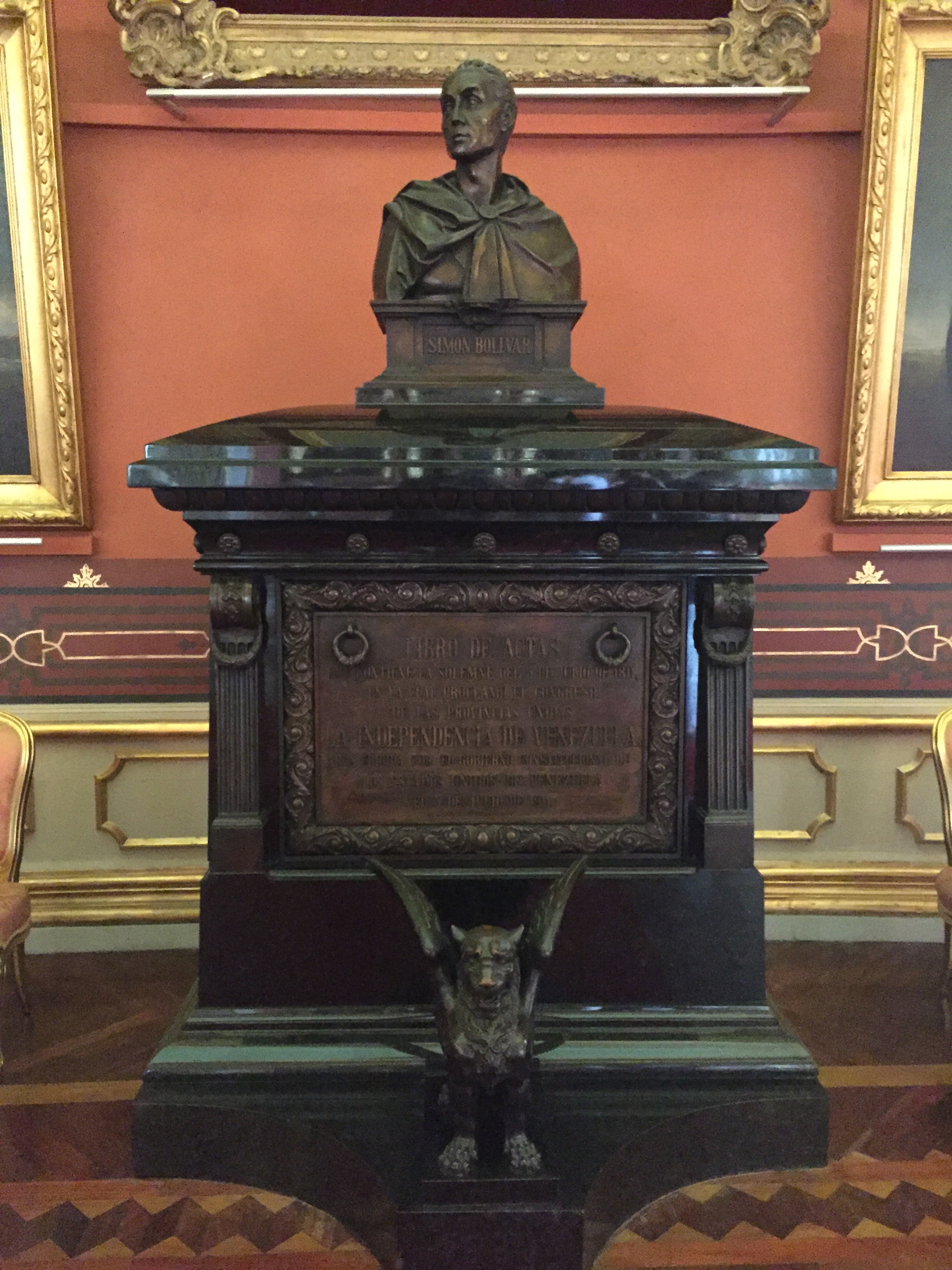 Arca que contiene el libro de actas del 5 de julio de 1811. Salón Elíptico del Palacio Federal Legislativo. Caracas, Venezuela.